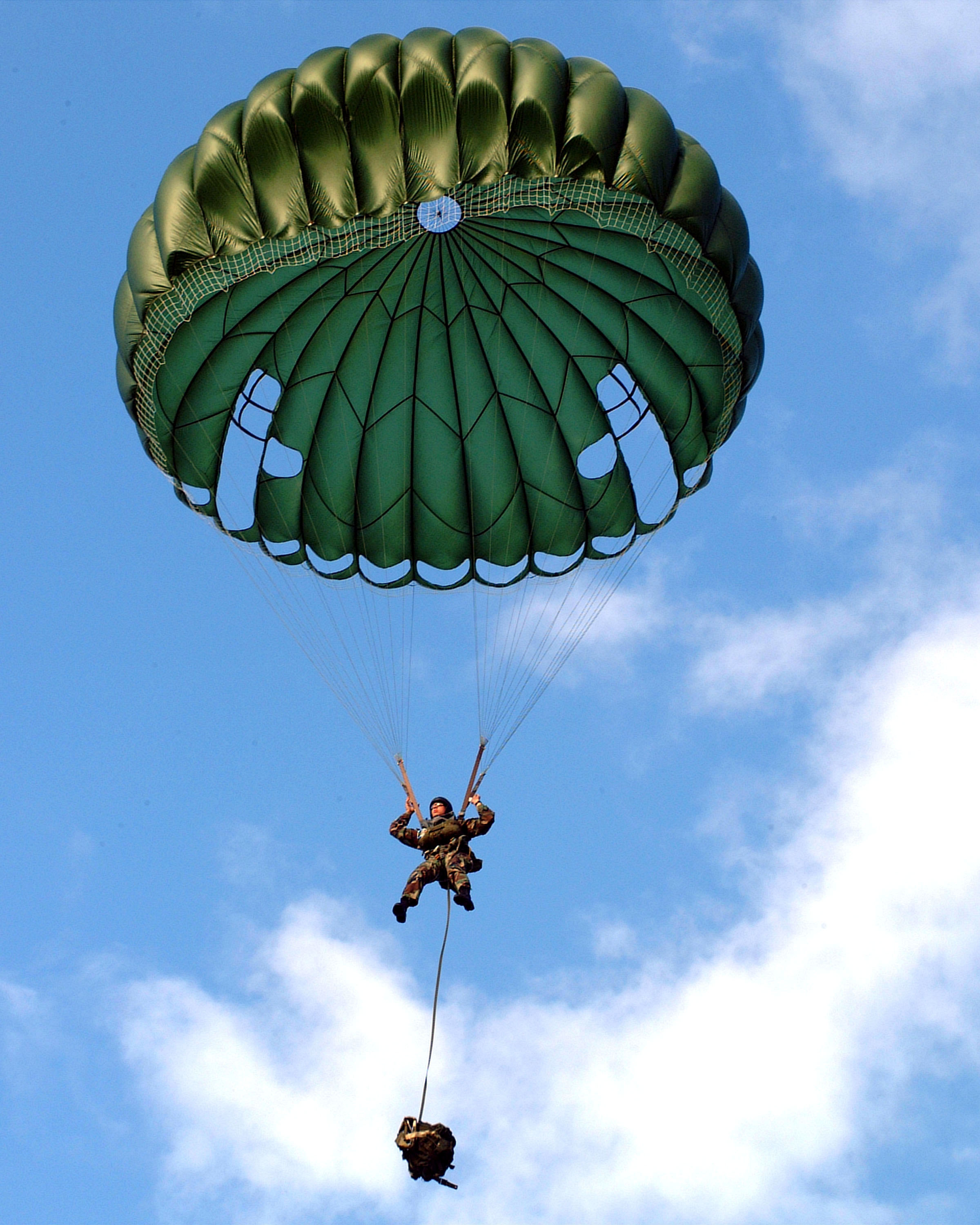 020124-N-5686B-002 Talofofo, Guam (June 24, 2002) -- A member of Explosive Ordnance Disposal Mobile Unit Five (EODMU 5) jumps from a CH-46 "Sea Knight" helicopter during a static line parachute jump training exercise. U.S. Navy Photo by Photographer's Mate 2nd Class Crystal Brooks. (RELEASED)